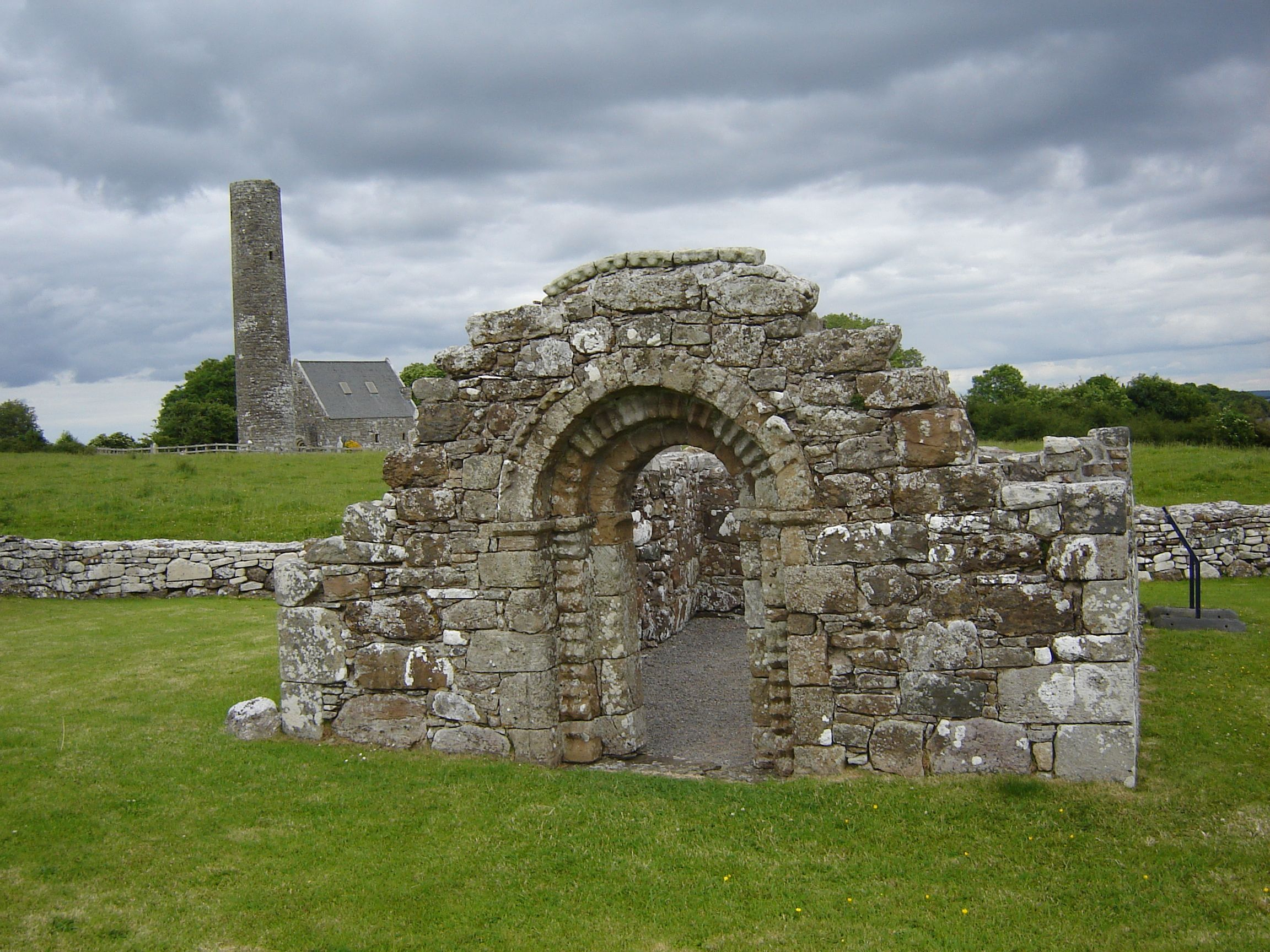 Holy Island (Inish Cealtra), Lough Derg, near Mountshannon in County Clare, Ireland. Ruins of St. Brigid's Church with Romanesque archway, St. Caimin's church in the background.